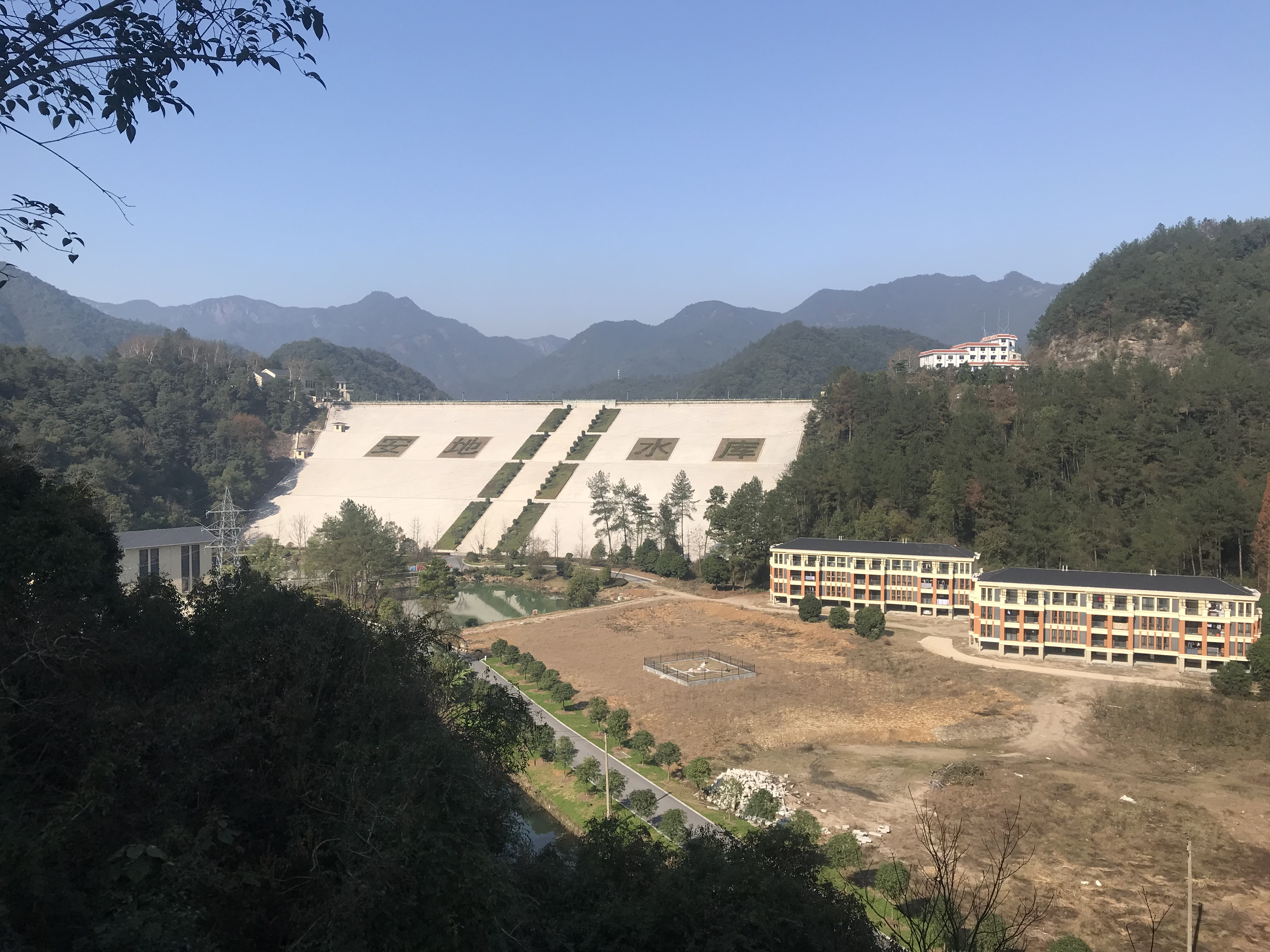 201812 Dam of Andi Reservoir